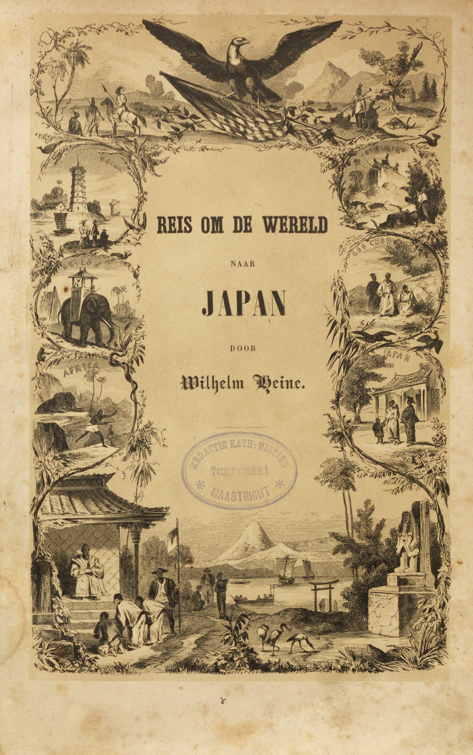 Title page of the Dutch translation of Wilhelm Heine (1856): Reise um die erde nach Japan.